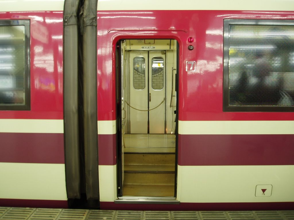 Door and step of Odakyu Electric Railway type 10000 series "High-decker/High-grade/High-level Super Express(HiSE)"